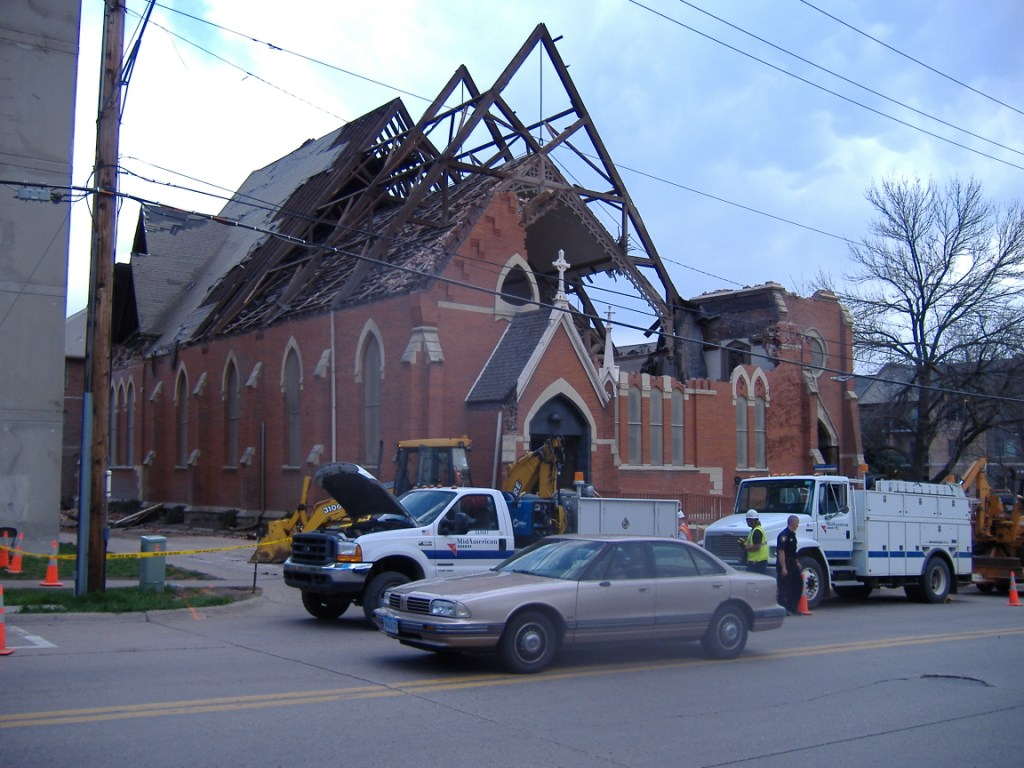 Tornado damage to St. Patrick's Catholic Church in Iowa City, Iowa